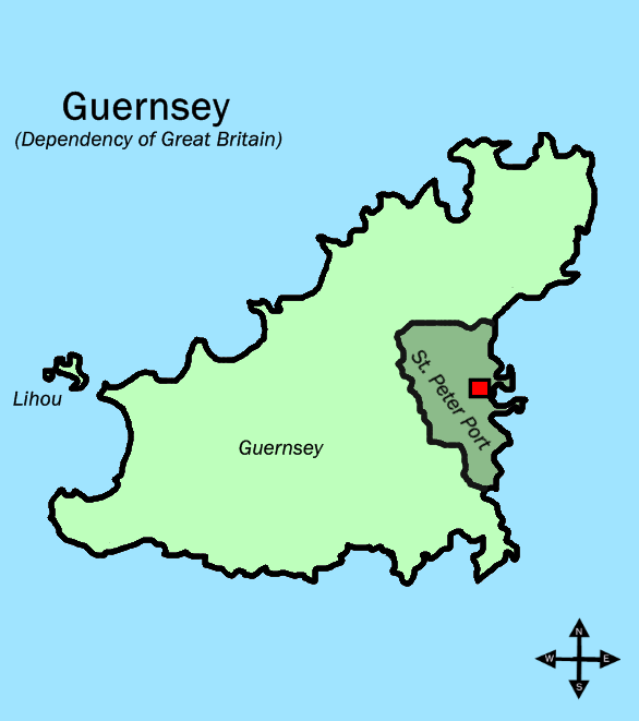 This map shows the position of St Peter Port in relation to the rest of Guernsey. I drew it myself but it is based on the picture Parishes in Guernsey, which I also drew myself, and the picture